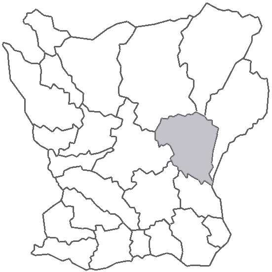 Map describing the location of Gärd Hundred in the province of Skåne, Sweden.